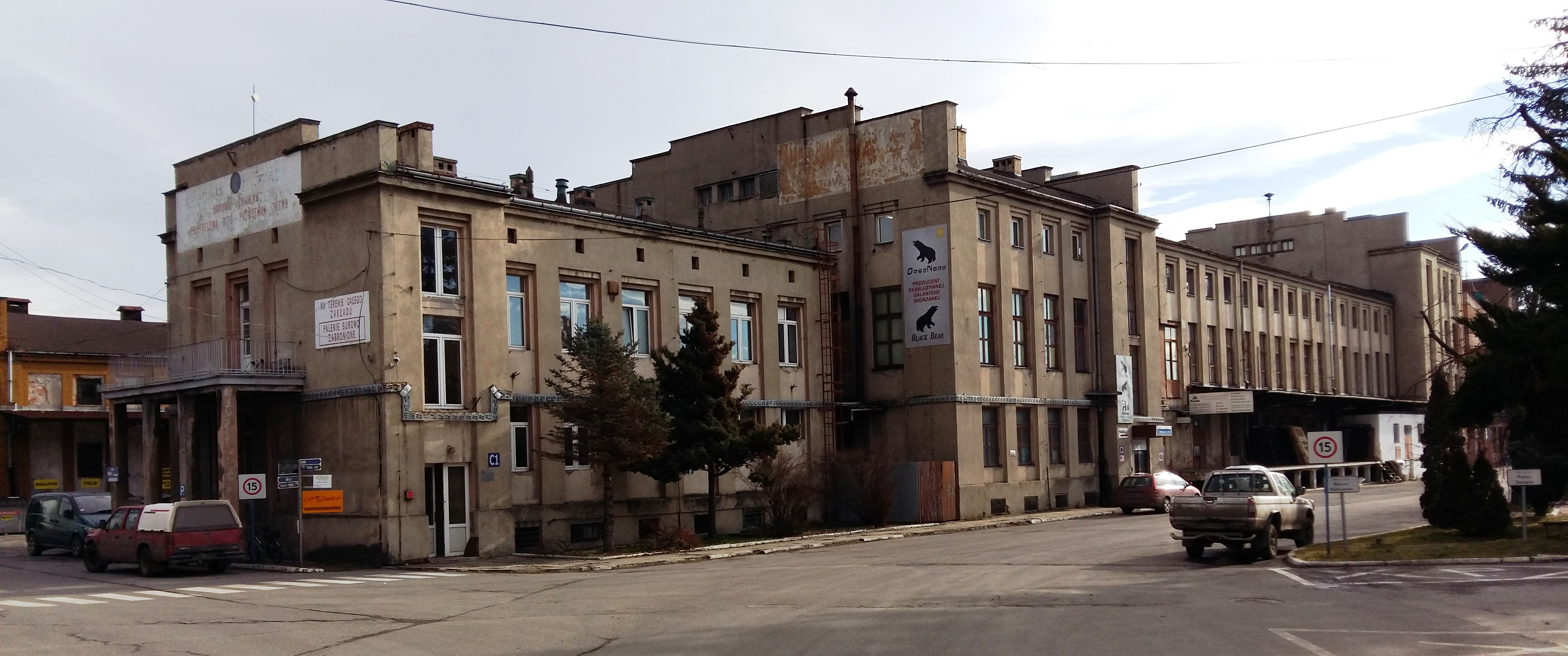 Former vodka distillery (1931-2010) in Dąbie, Kraków, Poland